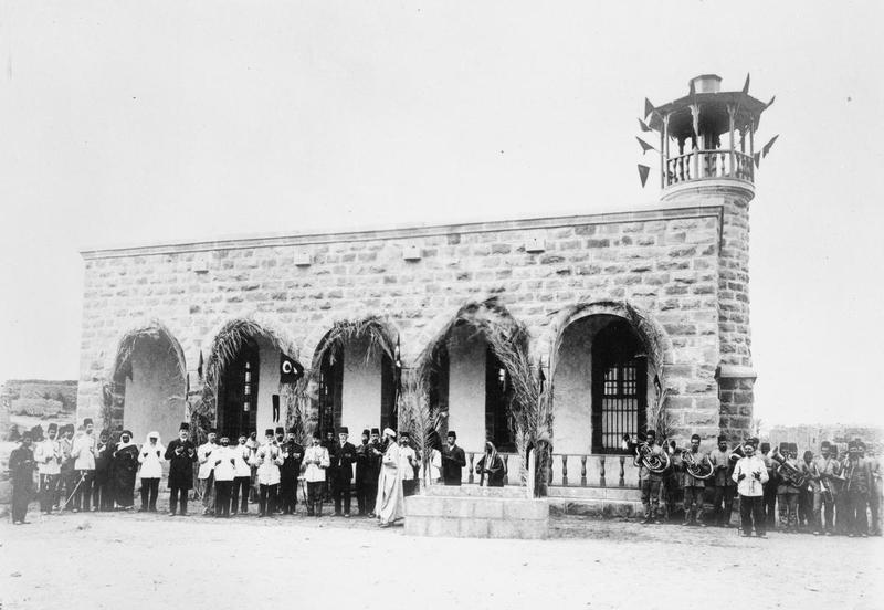 T E Lawrence and the Arab Revolt 1916 - 1918 Hejaz Railway - Mosque at Tebuk (built purposely for the employees of the line) exactly half way between Damascus and Medina.